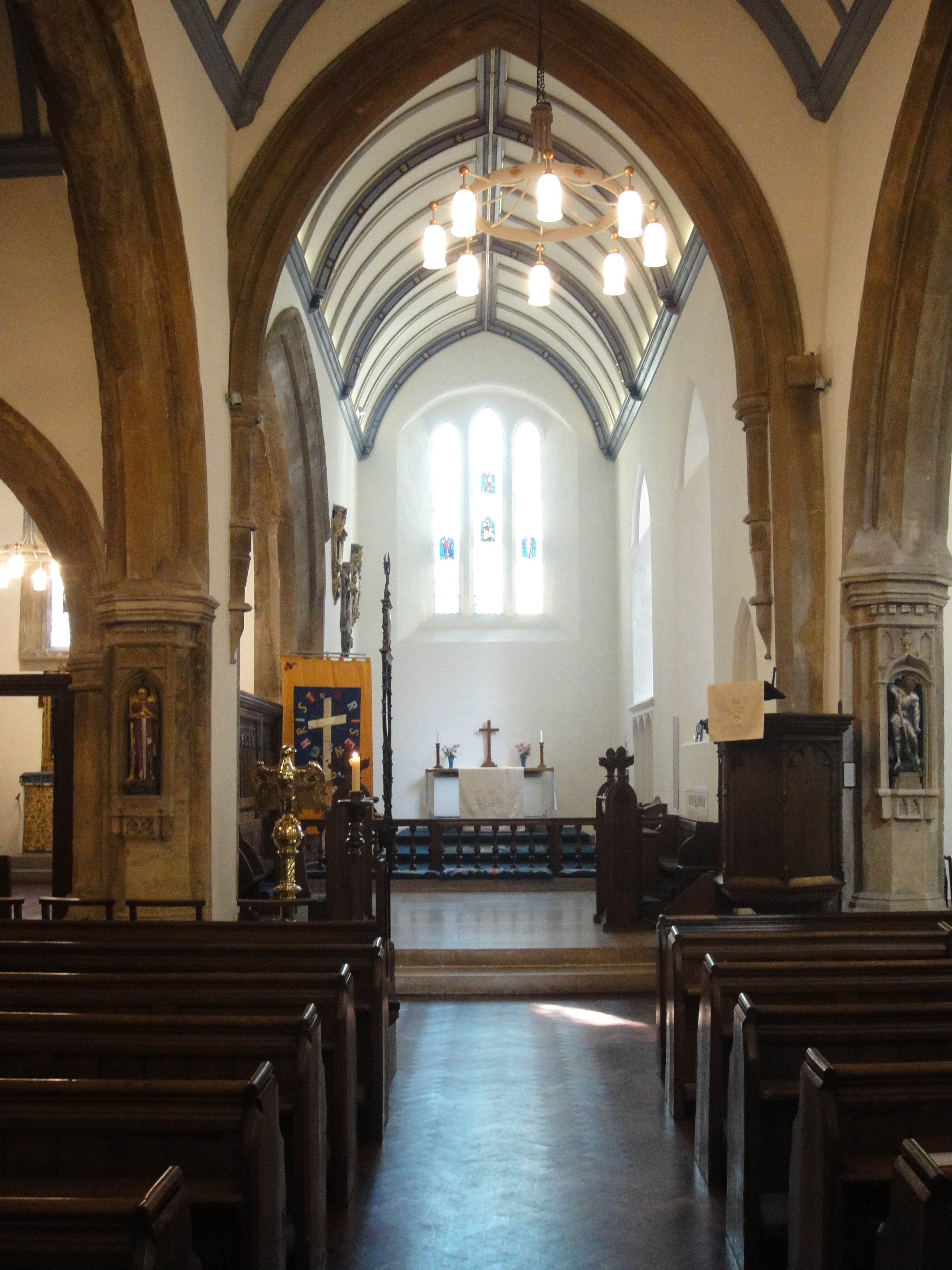 The interior of the city parish of St Michael at the North Gate.